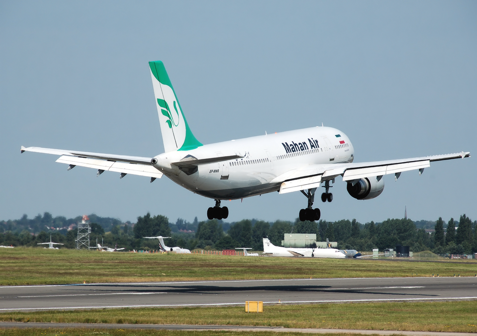 Mahan Air Airbus A300B4-600 (EP-MNR) lands at Birmingham International Airport, England.